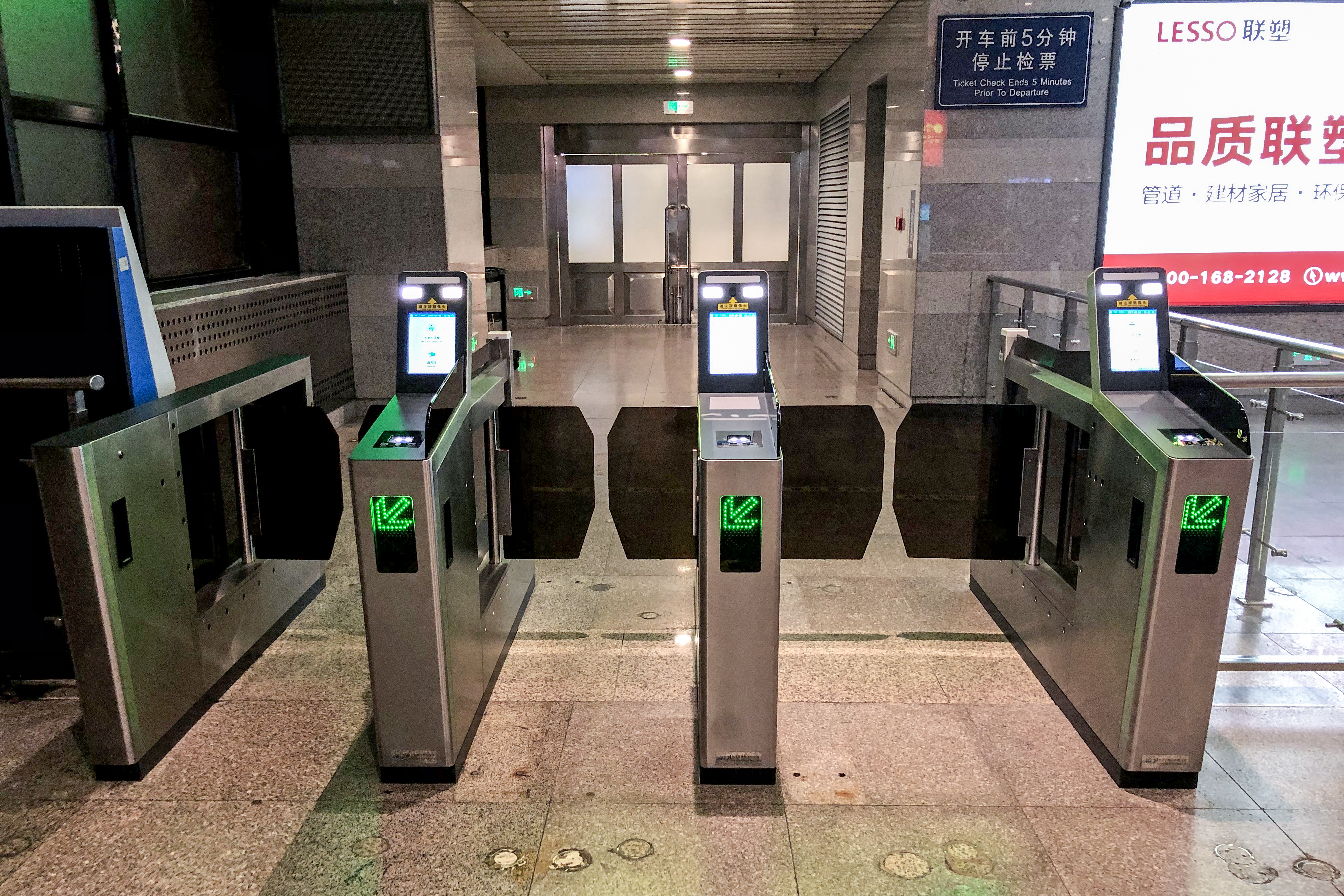 Quite new, with facial recognition - probably for Beijing-Xiong'an ICR.